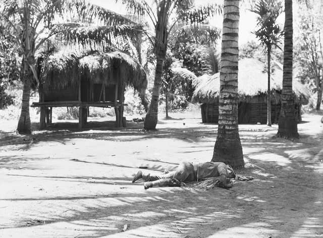 The body of a Japanese soldier at Kaiaput following the battle there between 19 and 20 September. AWM photo 057500